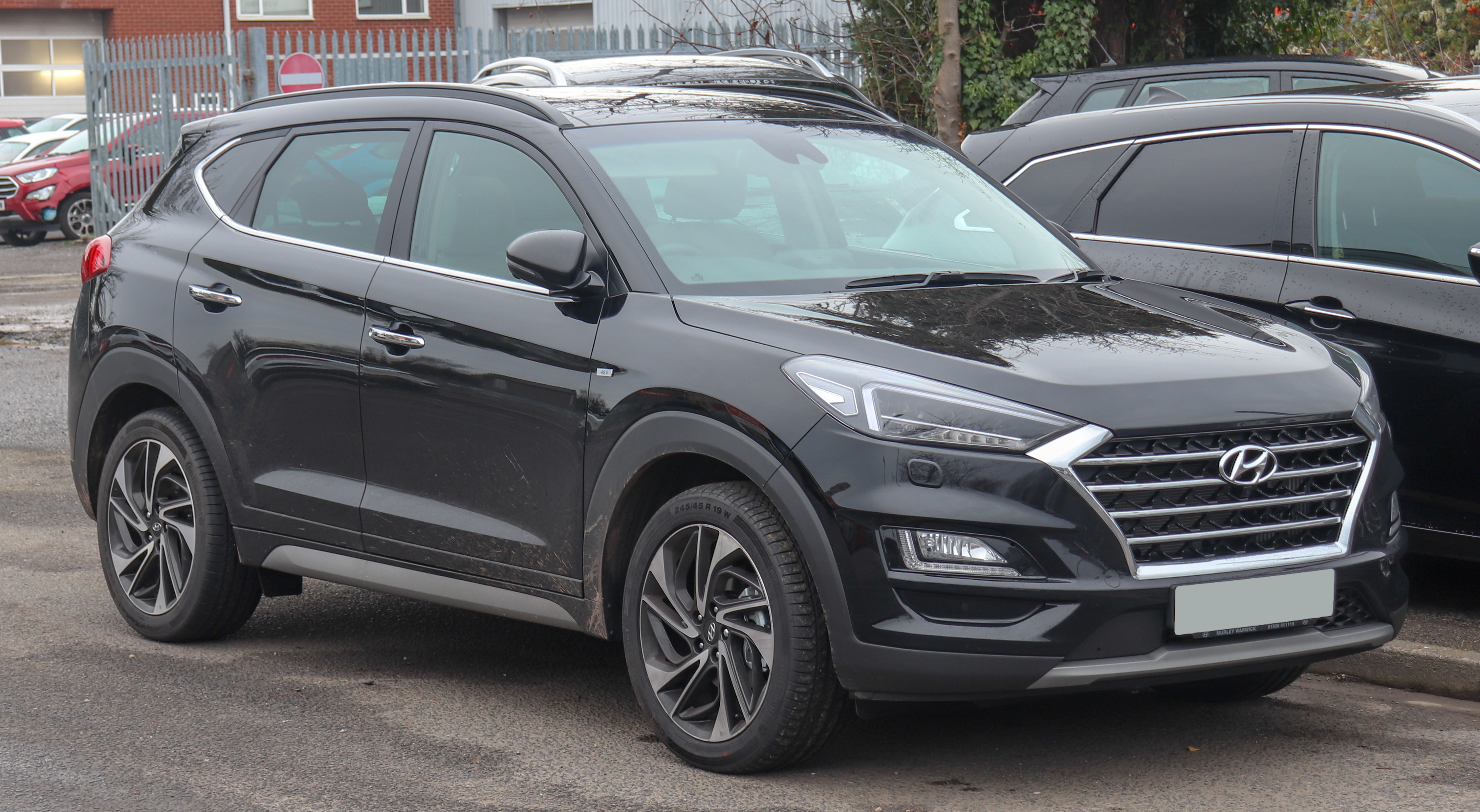 2018 Hyundai Tucson Premium SE CRDi 2WD facelift 2.0 Front